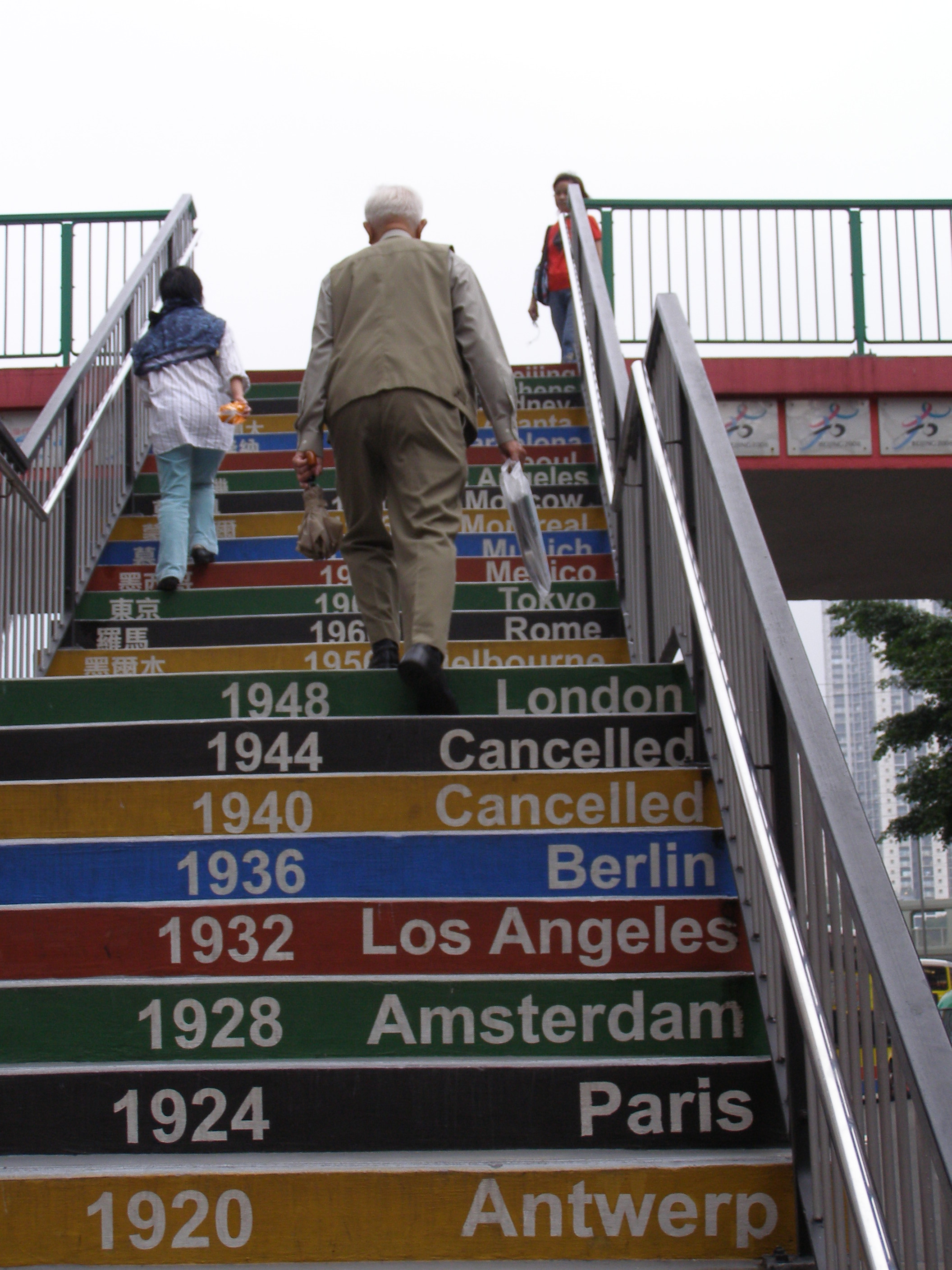 Olympic chronology on steps of pedestrian overpass, Causeway Bay, Hong Kong SAR, P.R.O.China Author: Maccess Corporation assignee of Alex Timbol